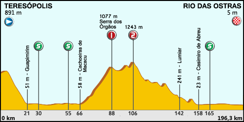 Profile of the 4th stage of the 2013 Tour do Rio